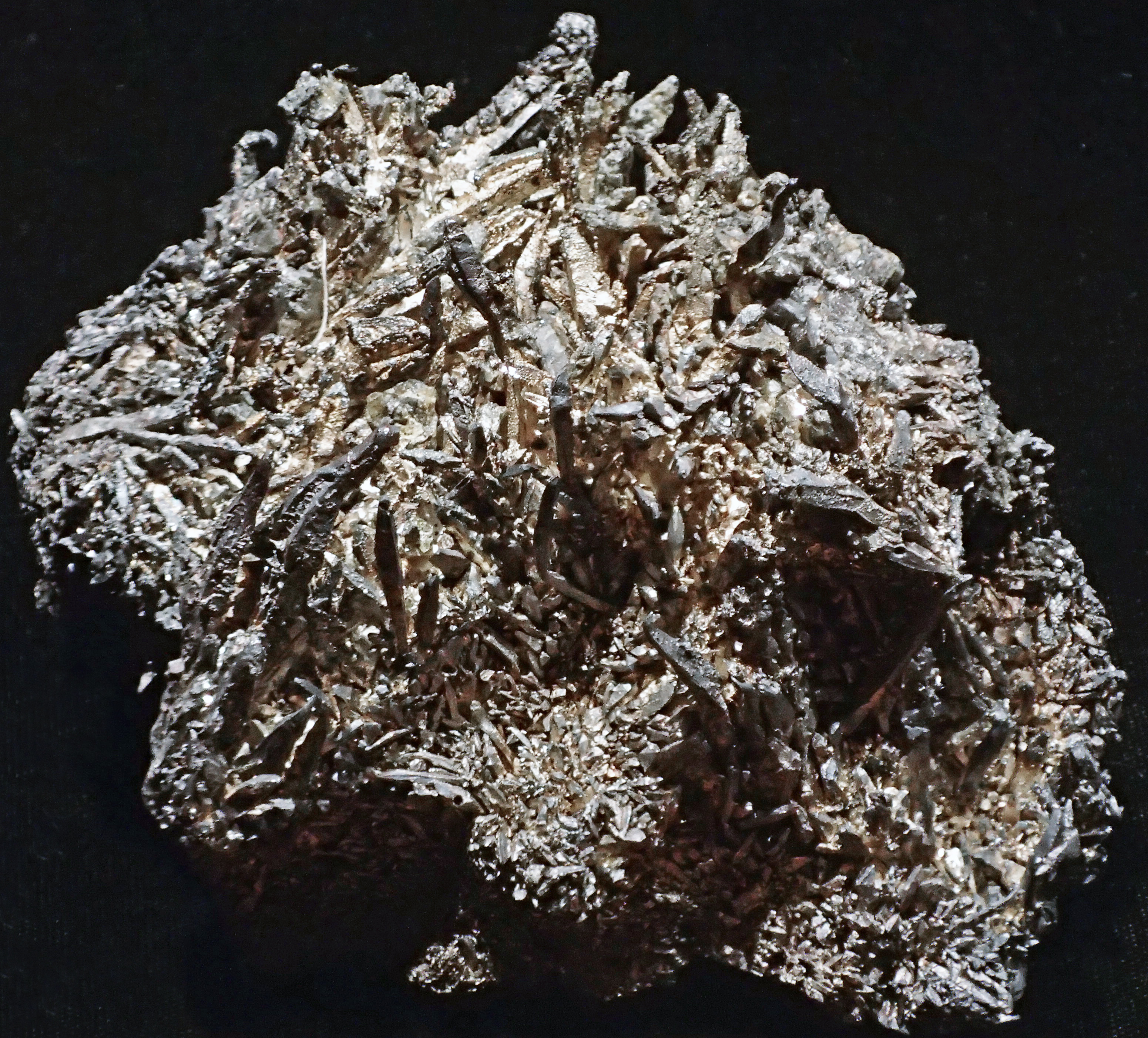 Silver from the Colorado, USA. (DMNH 11127, Denver Museum of Nature & Science, Denver, Colorado, USA) A mineral is a naturally-occurring, solid, inorganic, crystalline substrance having a fairly definite chemical composition and having fairly definite physical properties. At its simplest, a mineral is a naturally-occurring solid chemical. Currently, there are over 4900 named and described minerals - about 200 of them are common and about 20 of them are very common. Mineral classification is based on anion chemistry. Major categories of minerals are: elements, sulfides, oxides, halides, carbonates, sulfates, phosphates, and silicates. Elements are fundamental substances of matter - matter that is composed of the same types of atoms. At present, 118 elements are known (four of them are still unnamed). Of these, 98 occur naturally on Earth (hydrogen to californium). Most of these occur in rocks & minerals, although some occur in very small, trace amounts. Only some elements occur in their native elemental state as minerals. To find a native element in nature, it must be relatively non-reactive and there must be some concentration process. Metallic, semimetallic (metalloid), and nonmetallic elements are known in their native state as minerals. Silver is part of the gold-group of metallic elements. Silver is a precious metal, but is far less valuable than gold or platinum. Silver usually occurs as a silver sulfide mineral, but it also occurs in nature in its native state, often in the form of twisted wires. Silver is moderately soft and has a silvery-white color on fresh surfaces that tarnishes to darker colors. Elemental silver in nature is often found alloyed with other metals. Naturally alloyed gold-silver is called electrum. Locality: Commodore Mine, Creede Mining District, Mineral County, Colorado, USA